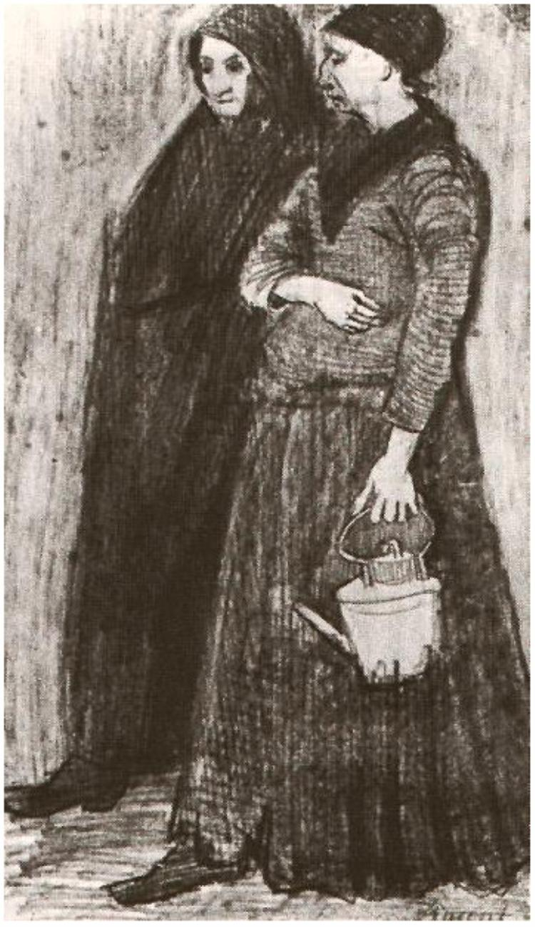 Sien Pregnant, Walking with Older Woman 988a Vincent van Gogh